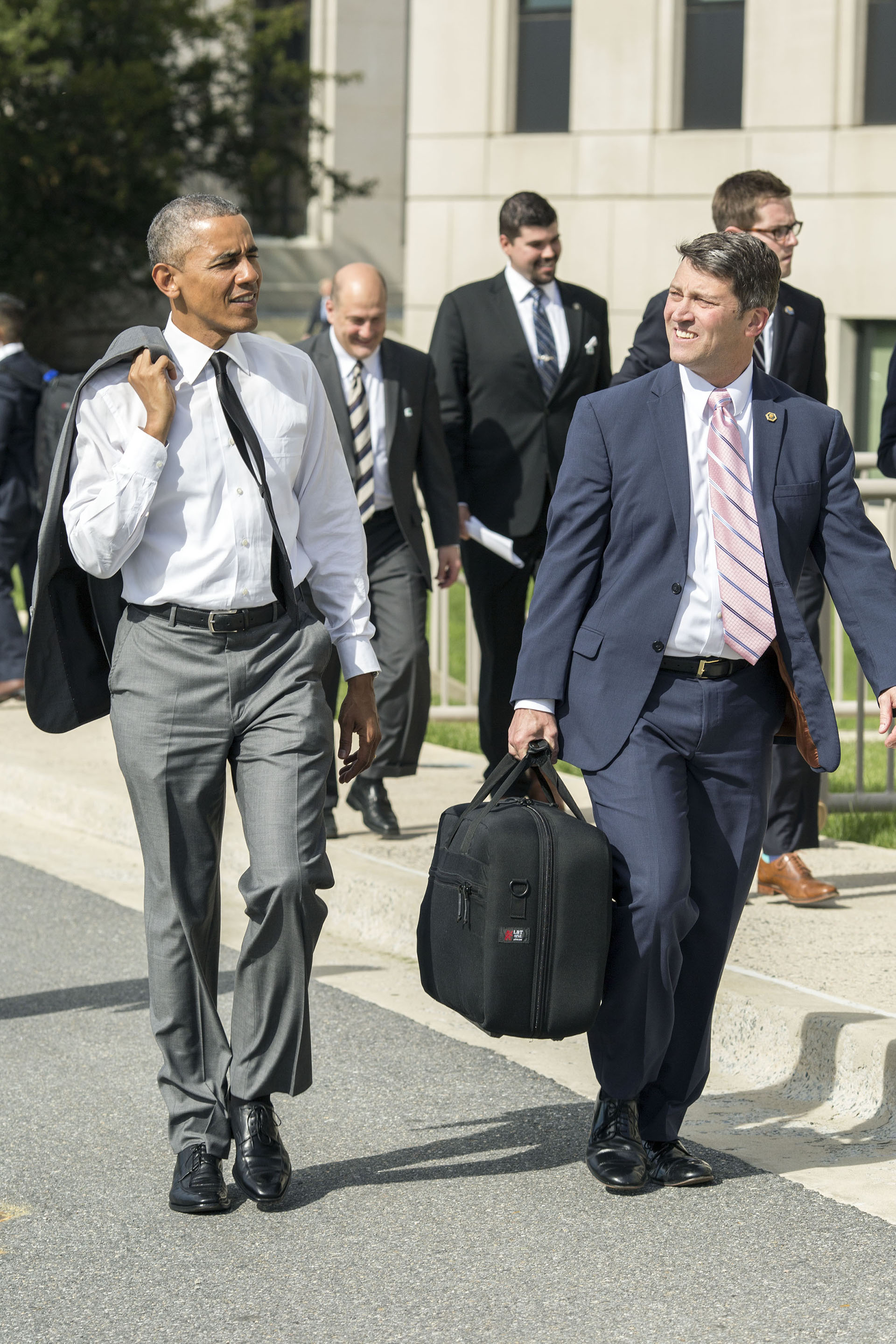 President Barack Obama departs Walter Reed National Military Medical Center with Dr. Ronny Jackson, in Bethesda, Md., April 29, 2015. (Official White House Photo by Pete Souza)